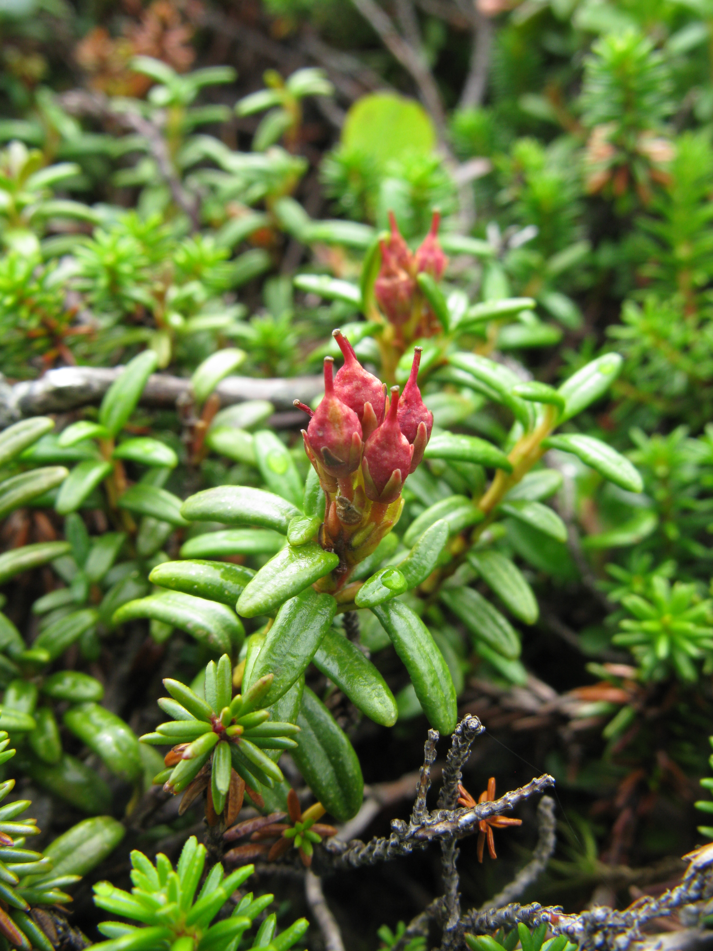 Loiseleuria procumbens, Mt. Higashi-Azumayama, Fukushima pref., Japan